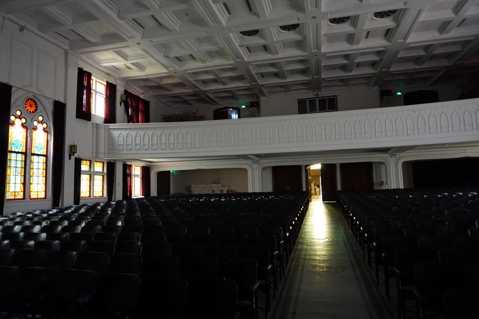 Shanghai No. 3 Girls' High School, theater